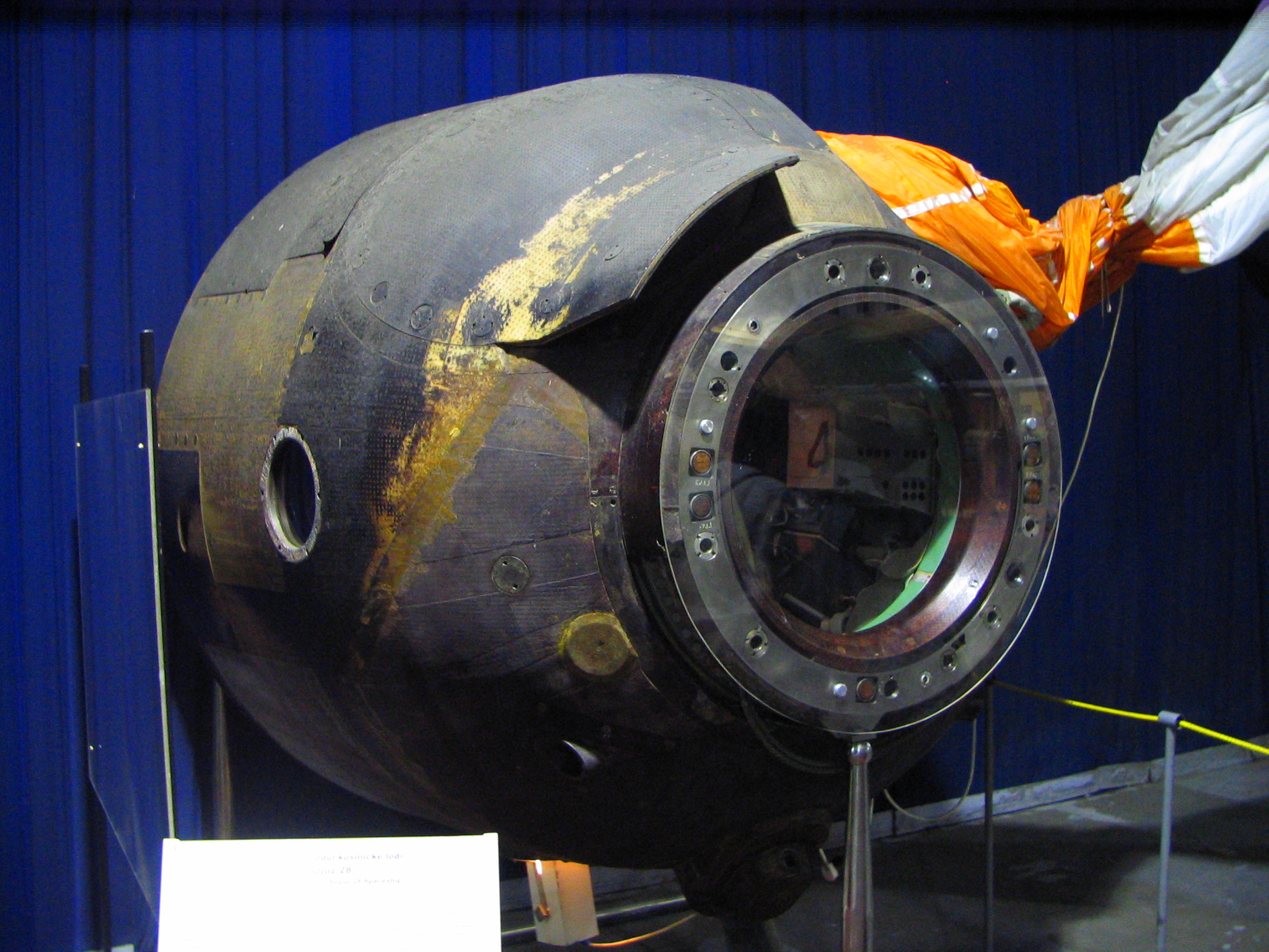 Reentry capsule of Soyuz 28 spaceship